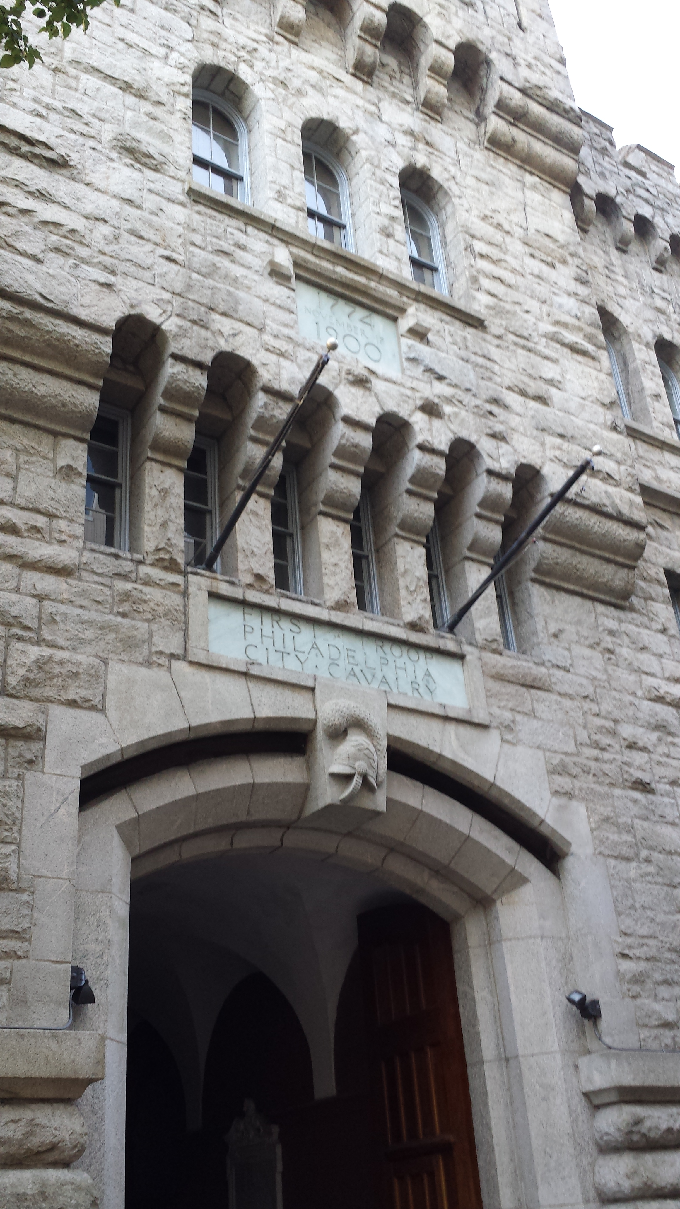 Facade of the armory of the First Troop Philadelphia City Cavalry in Center City Philadelphia